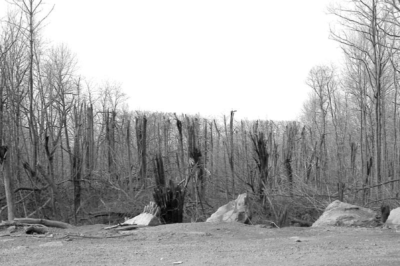 Weather Mtn About one year later. I hope posting these does not offend anyone, there seems to not be any public photographic record, and I came across some old negatives.